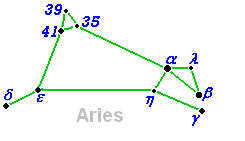 Rey version of the Aries constellation